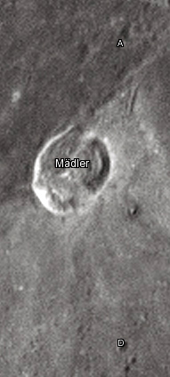 Madler lunar crater as seen from Earth with satellite craters labeled